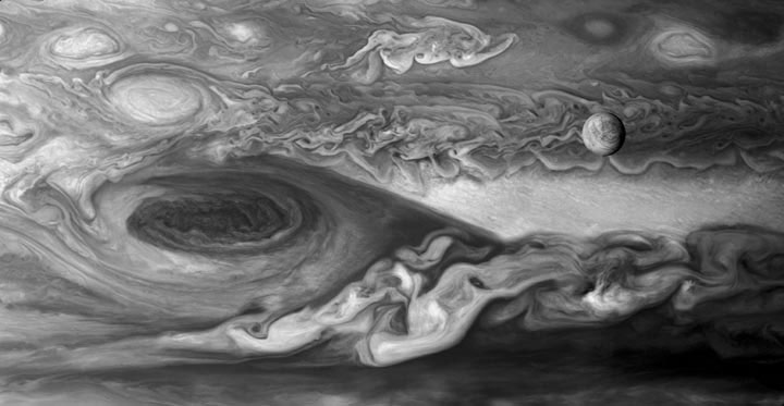 Europa and Jupiter’s Great Red Spot, Voyager 1, March 3, 1979_Michael Benson mosaic composite photograph